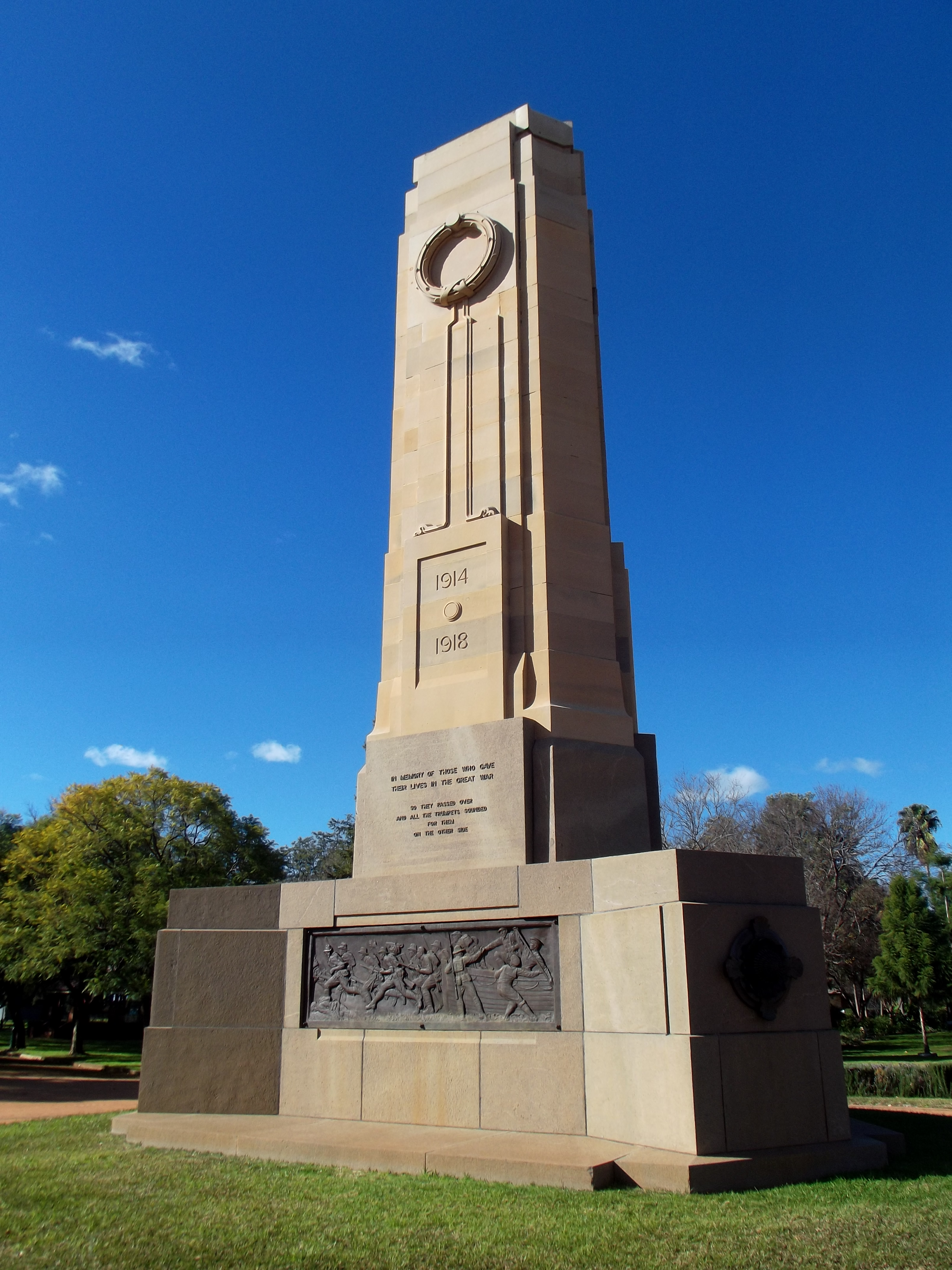 Dubbo War Memorial